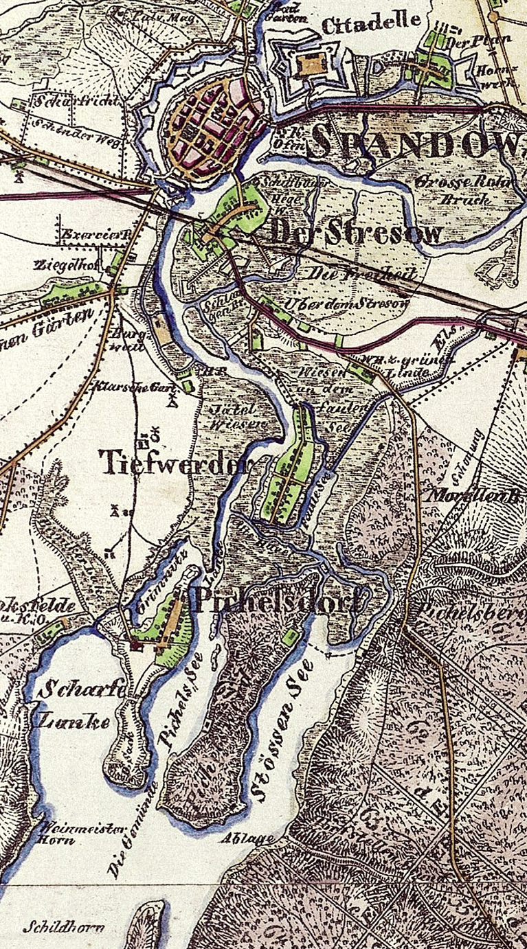 Land in the west outside of Berlin, river Havel and lakes 1842. Today parts of the town: Berlin-Spandau, Berlin-Wilhelmstadt. From map for the maneuver of the "Garde-Corps" in autumn 1842.